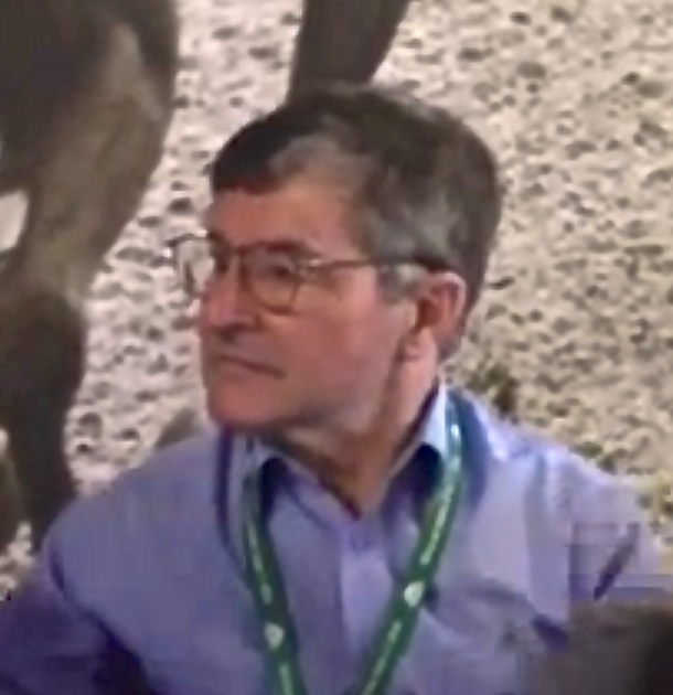 Jean Cruguet, Triple Crown winning jockey of Seattle Slew (1977) at 2014 Belmont Stakes